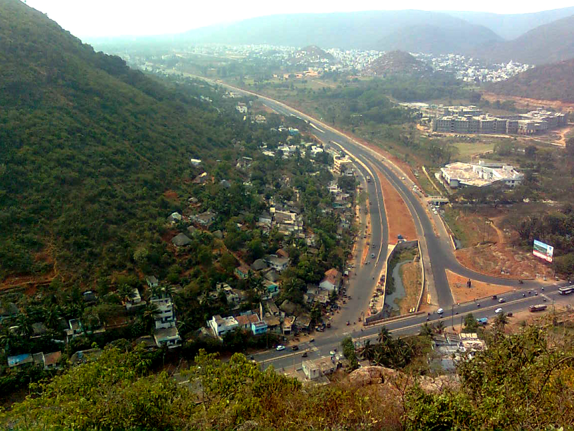 View of HanumantavWaka and Arilova from the west end of Kailasagiri Hill in Visakhapatnam